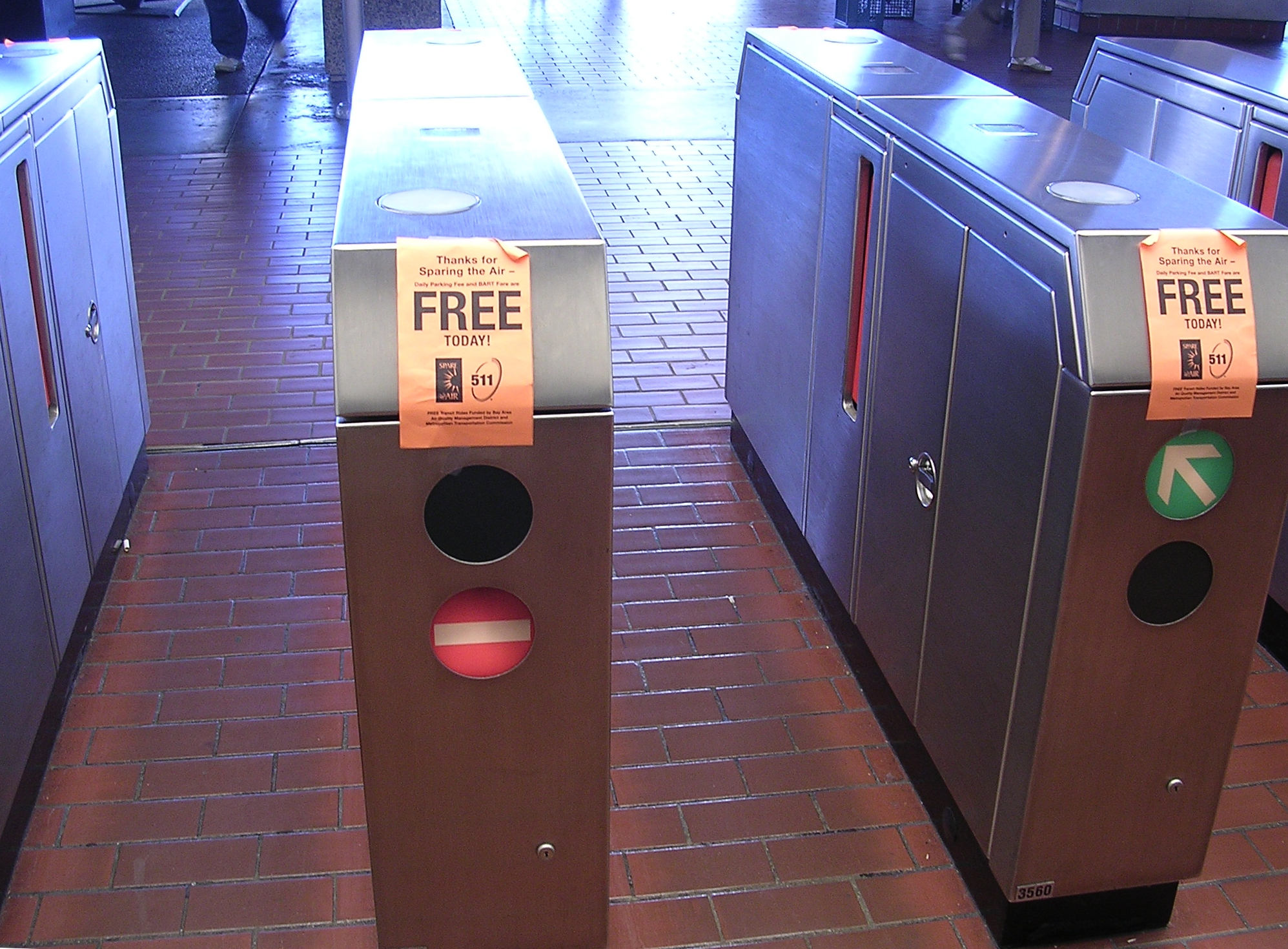 BART is gratis on Spare the Air Days. Taken at MacArthur Station.